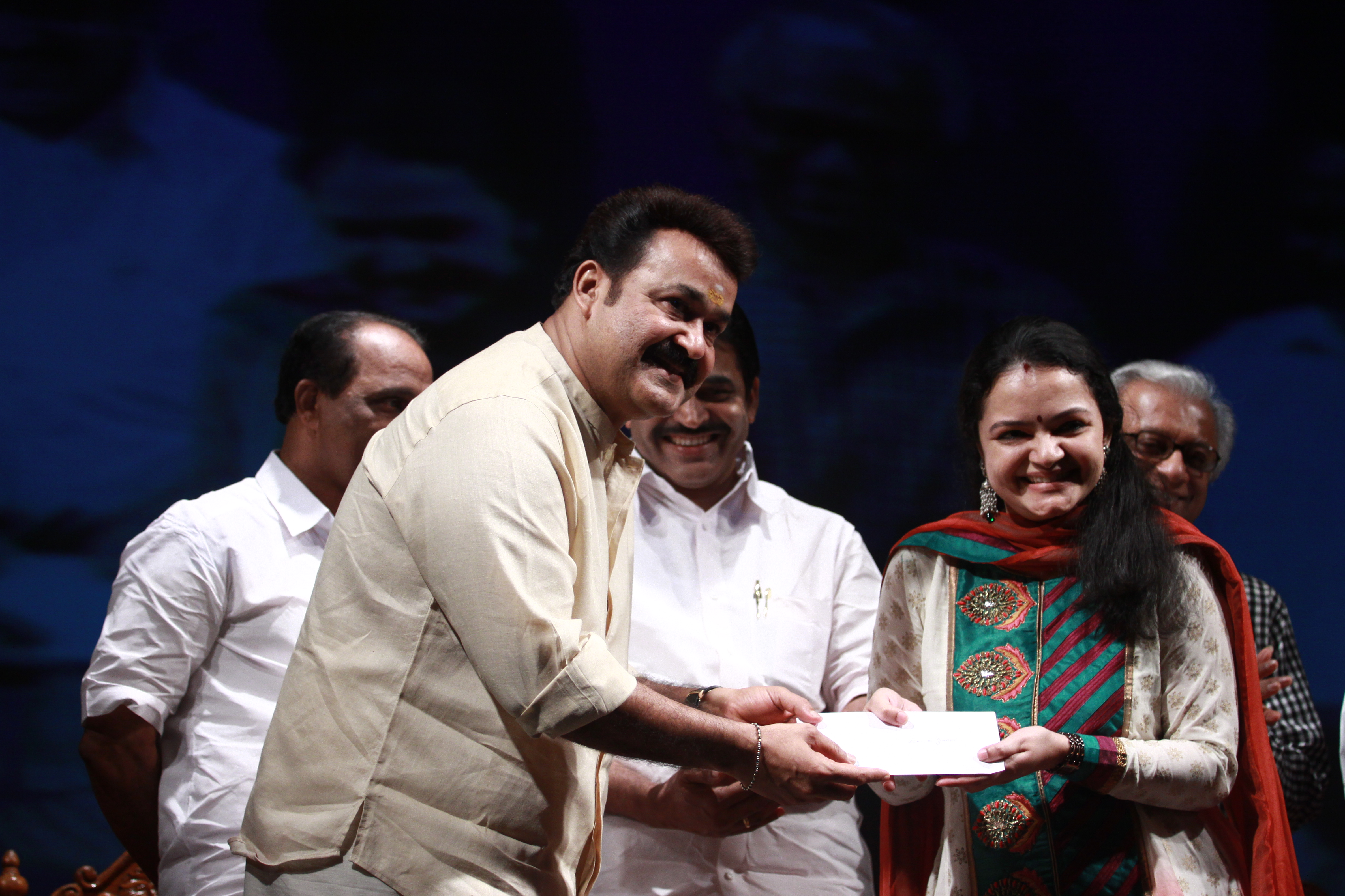 Radhika Thilak with Mohanlal